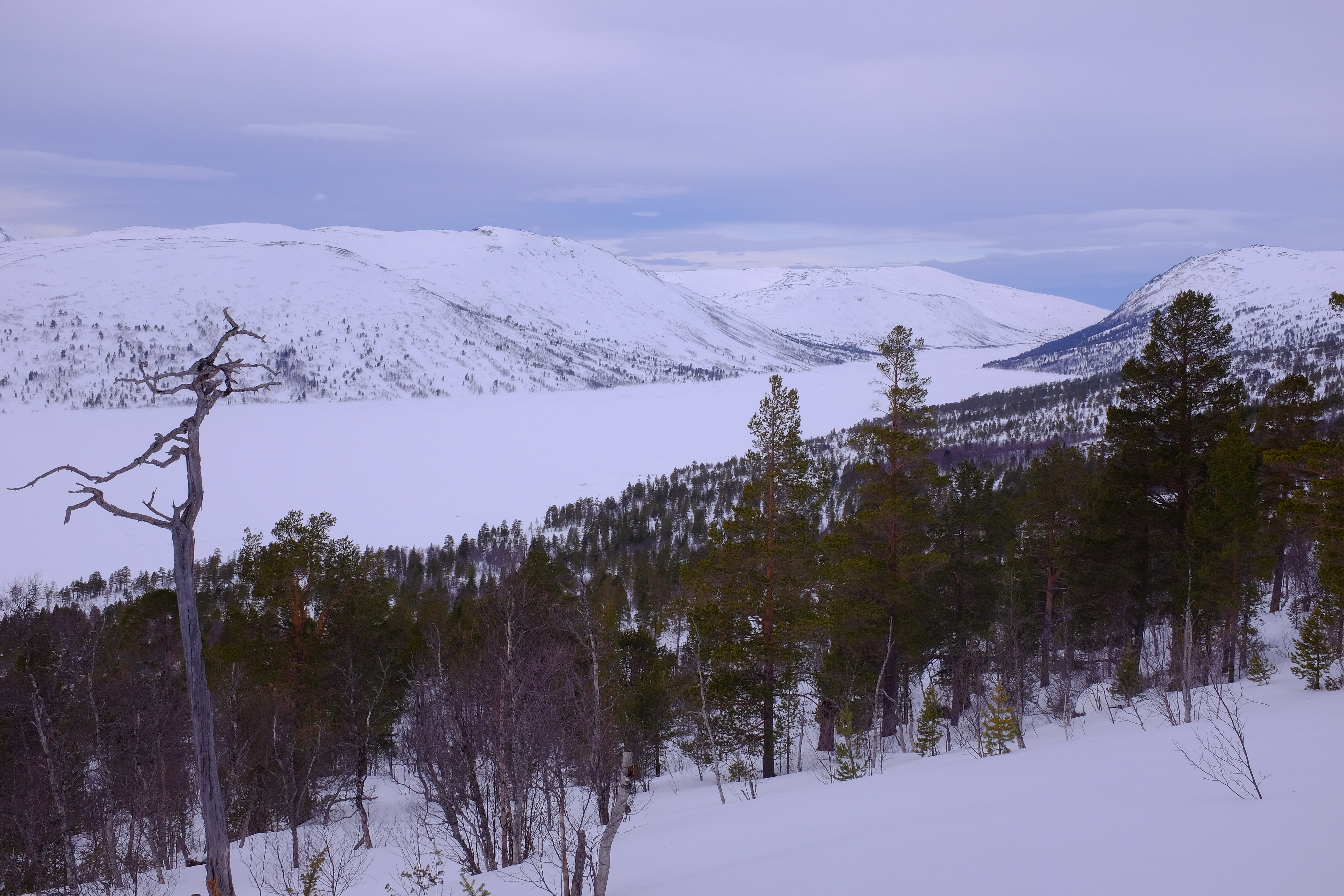 Gråsjøen lake seen from south east at Hauglia in Trollheimen, Surnadal, Møre og Romsdal, Norway.